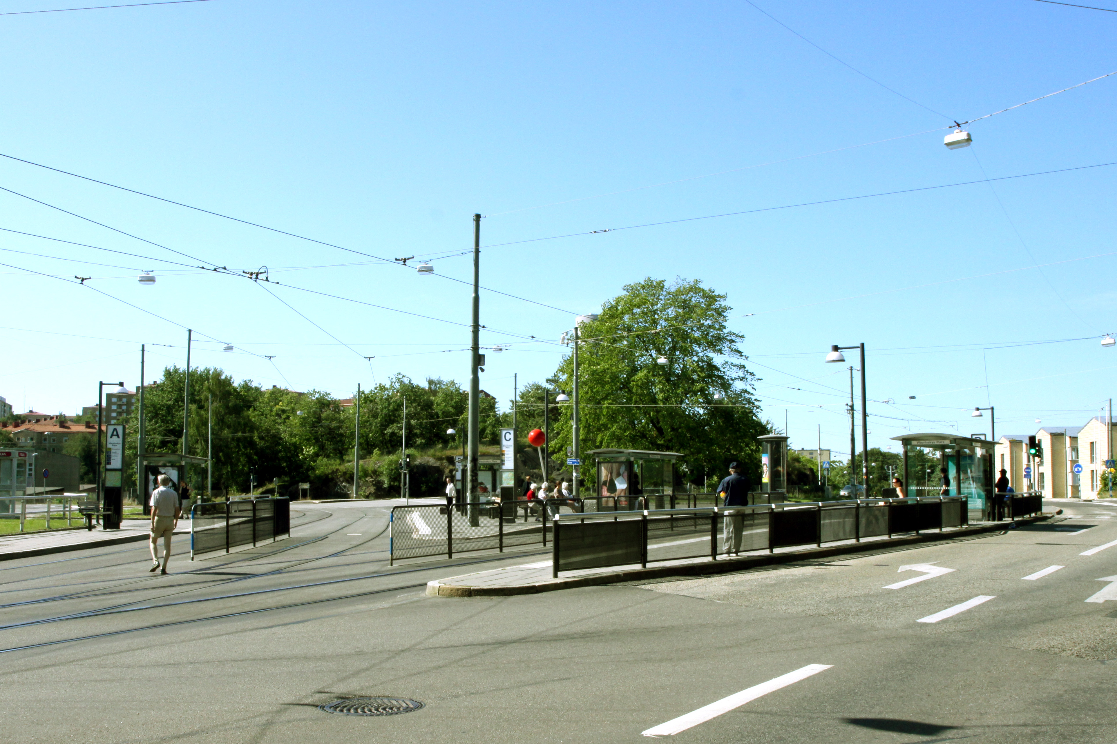 The tram stop next to the town square "Wavrinskys plats" in Gothenburg, Sweden